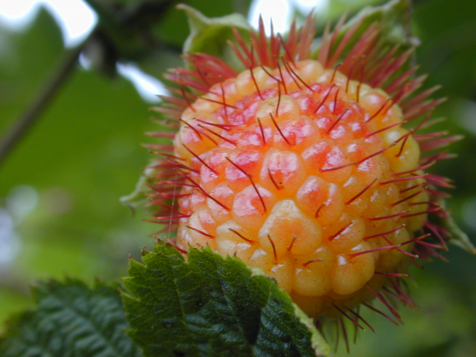 Rubus hawaiensis (fruit). Location: Maui, Polipoli